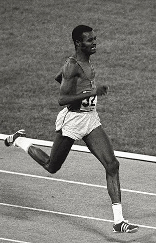 Tegegne Bezabeh, 400 m seminfinal, 1968 Olympics